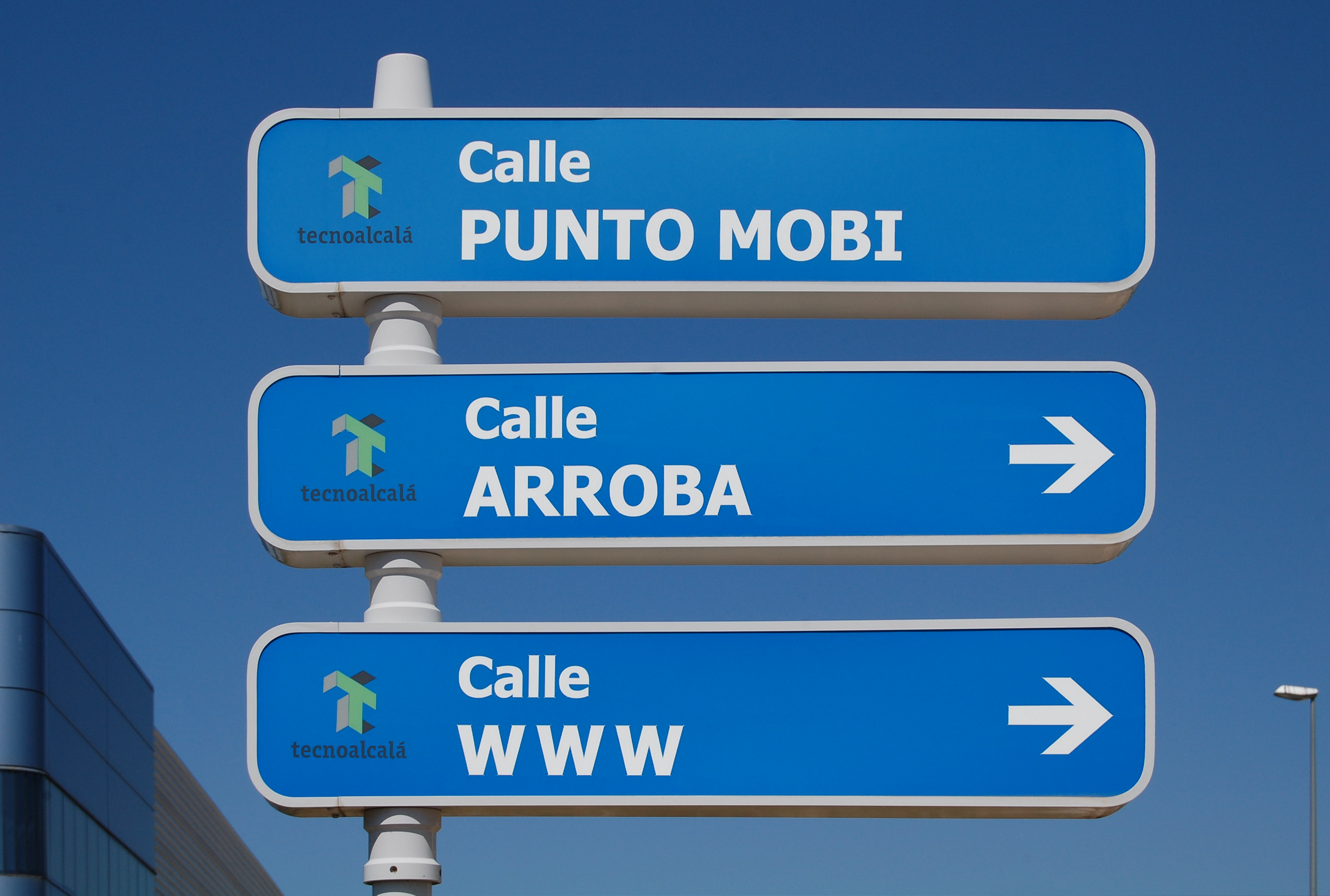 Street sign dedicated to computer terms, in Alcalá de Henares (Community of Madrid - Spain).